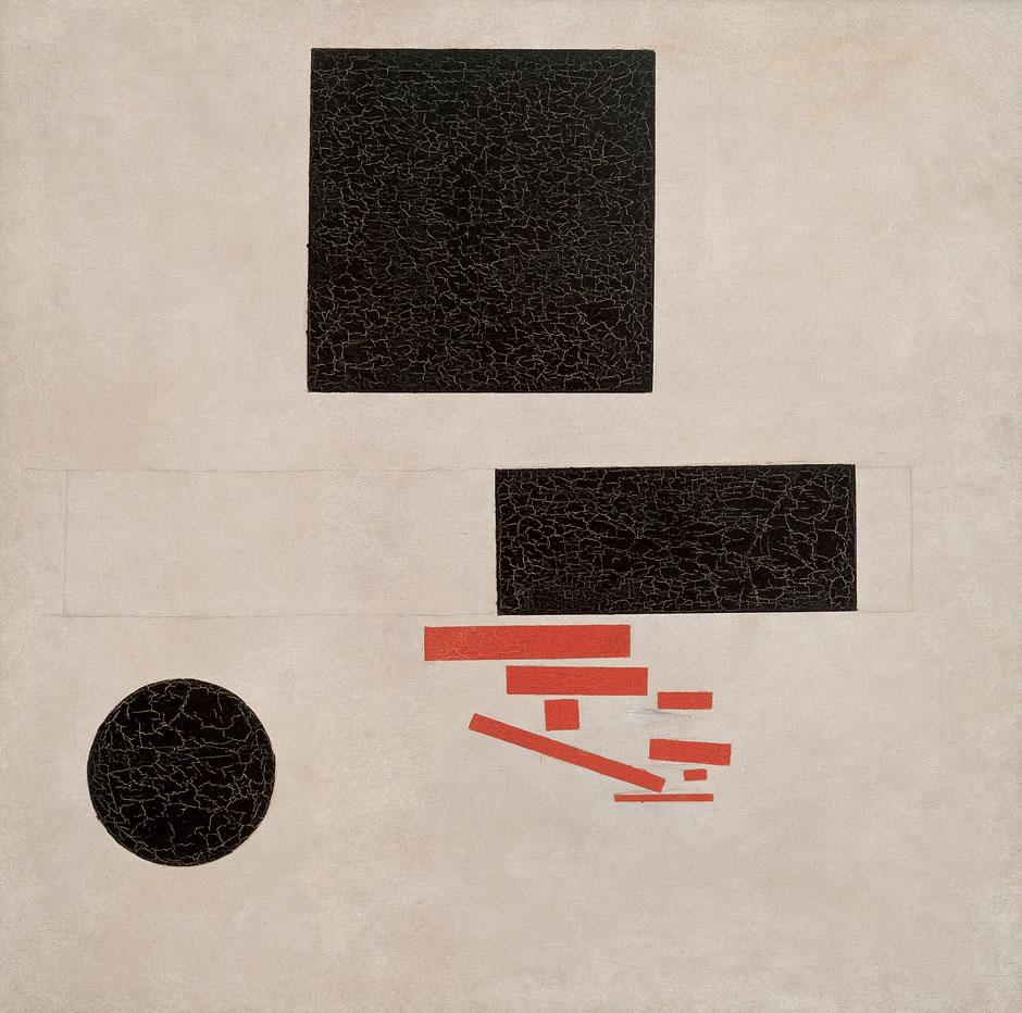 Kazimir Malevich, Suprematist Composition, 1915 Oil on canvas, 80,4×80,6 cm Museum: Fondation Beyeler, Riehen, near Basel, Switzerland Photo: Robert Bayer, Basel